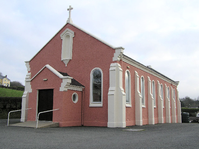 Mountfield RC Church. It is in the centre of the village.